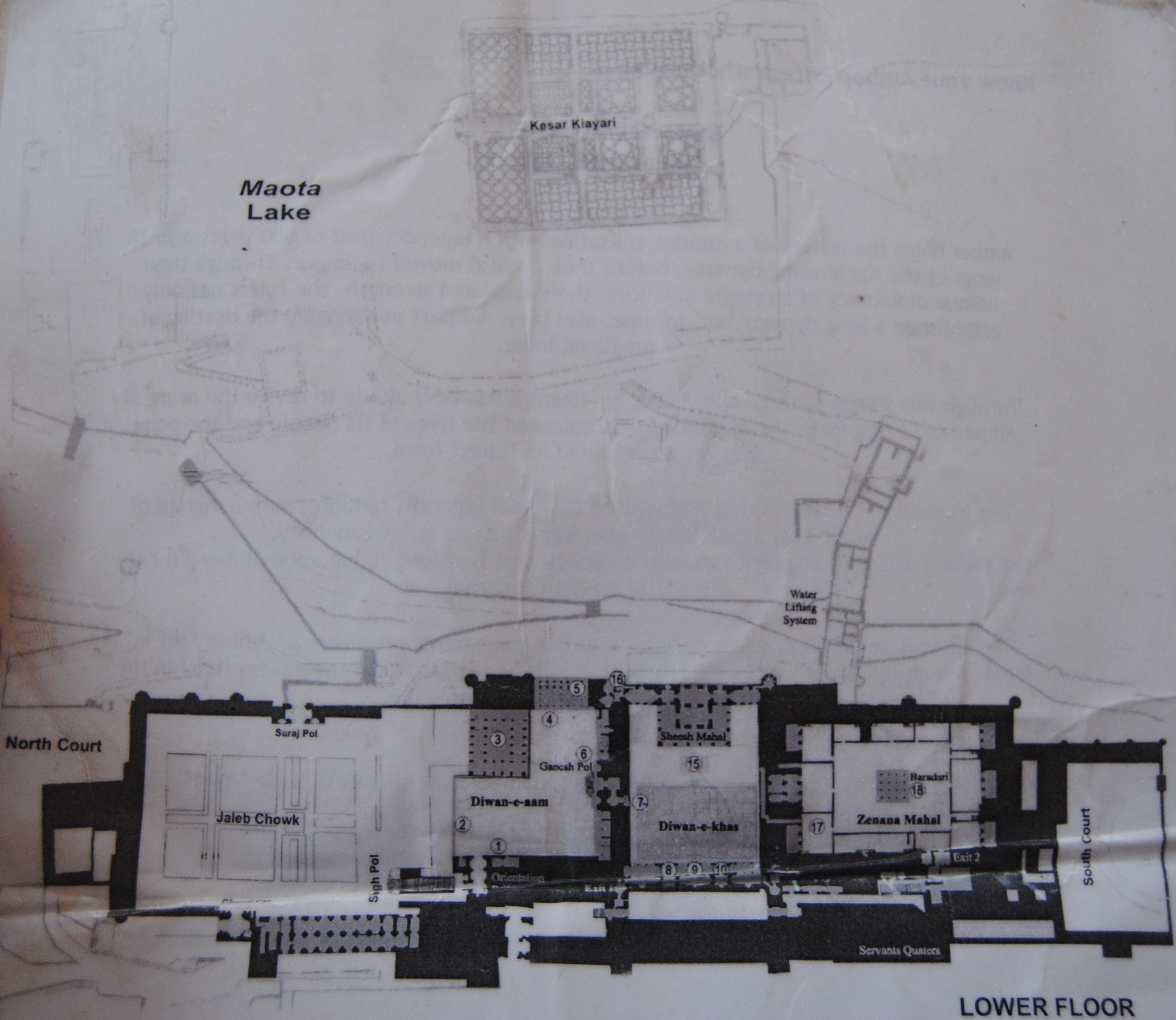 Picture taken with own camera from map on site. Heritage